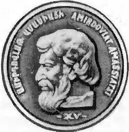 Amirdovlat Amasiaci, Fig. 1